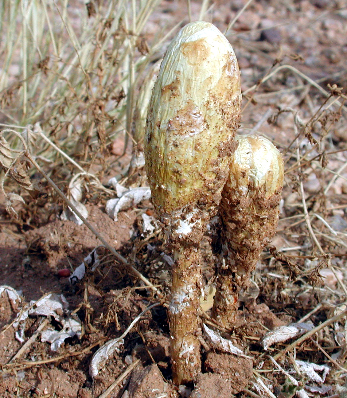 Podaxis pistillaris, Desert Shaggy Mane, Reach 11 Recreation Area, Phoenix, Arizona, USA.